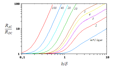 AC resistance of a portion of a transformer winding according to Dowell's method.